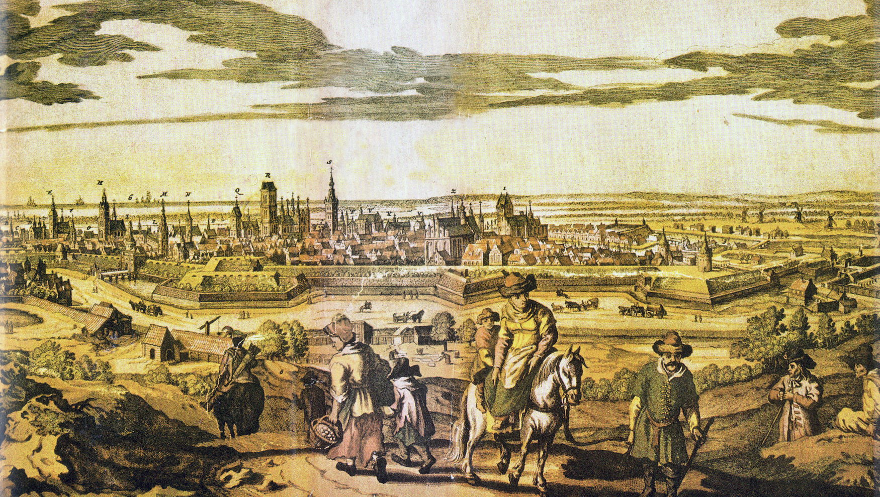 The Panoramic View of Gdansk in 18th century by unknown painter